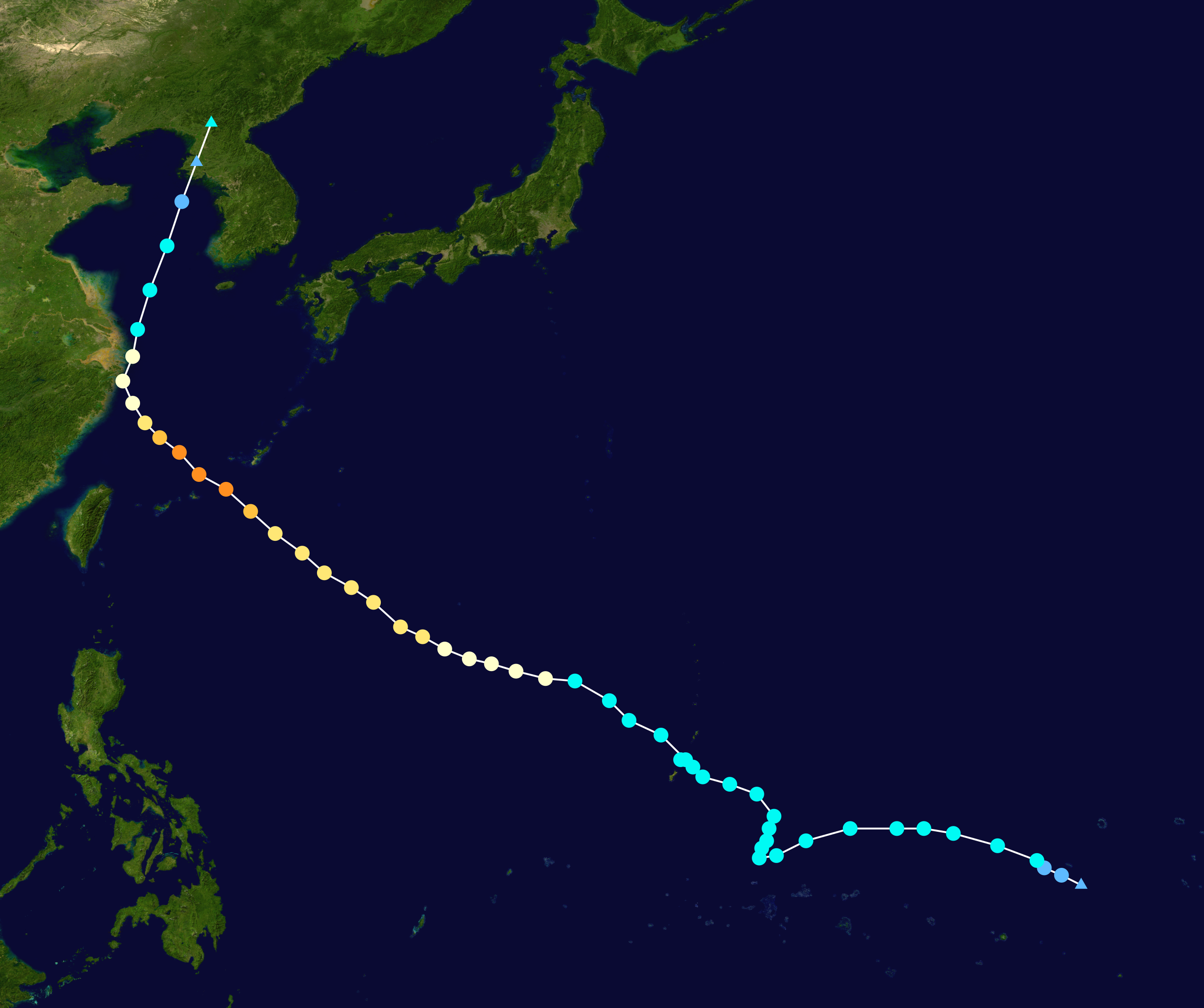 Track map of Typhoon Chan-hom of the 2015 Pacific typhoon season. The points show the location of the storm at 6-hour intervals. The colour represents the storm's maximum sustained wind speeds as classified in the Saffir–Simpson scale (see below), and the shape of the data points represent the nature of the storm, according to the legend below. Saffir–Simpson scale Tropical depression≤38 mph≤62 km/h Category 3111–129 mph178–208 km/h Tropical storm39–73 mph63–118 km/h Category 4130–156 mph209–251 km/h Category 174–95 mph119–153 km/h Category 5≥157 mph≥252 km/h Category 296–110 mph154–177 km/h Unknown Storm type Tropical cyclone Subtropical cyclone Extratropical cyclone / Remnant low / Tropical disturbance / Monsoon depression